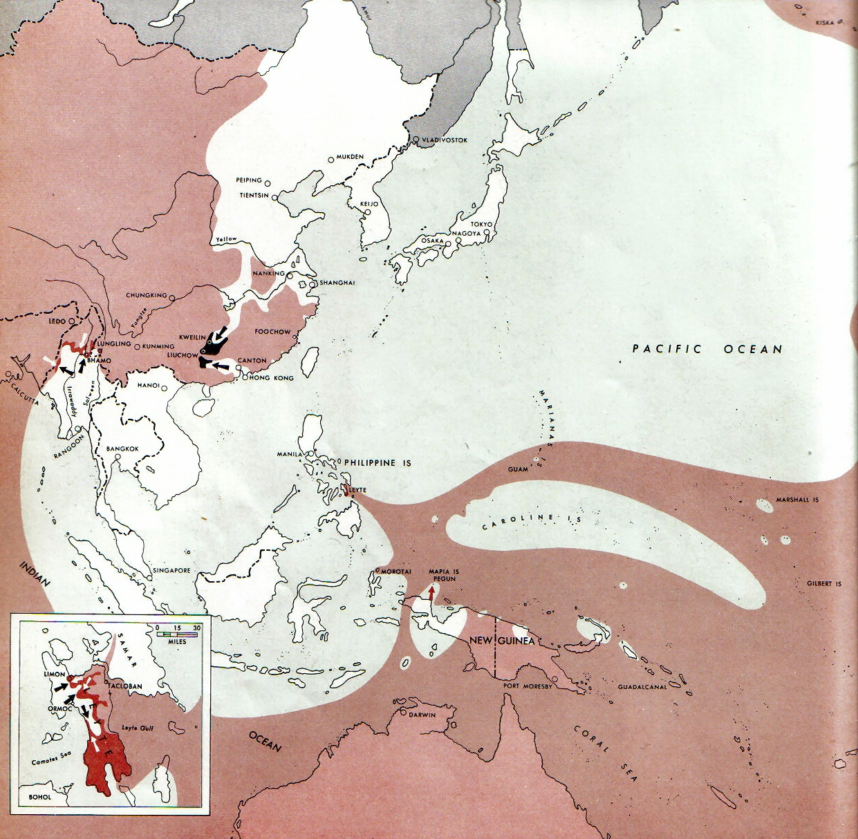 Map of the front against Japan as of 15 Nov 1944: This map is taken from the source "Atlas of the World Battle Fronts in Semimonthly Phases to August 15th 1945: Supplement to The Biennial report of The Chief of Staff of the United States Army July 1, 1943 to June 30 1945 To the Secretary of War". (See Cover, Forward and Map details)